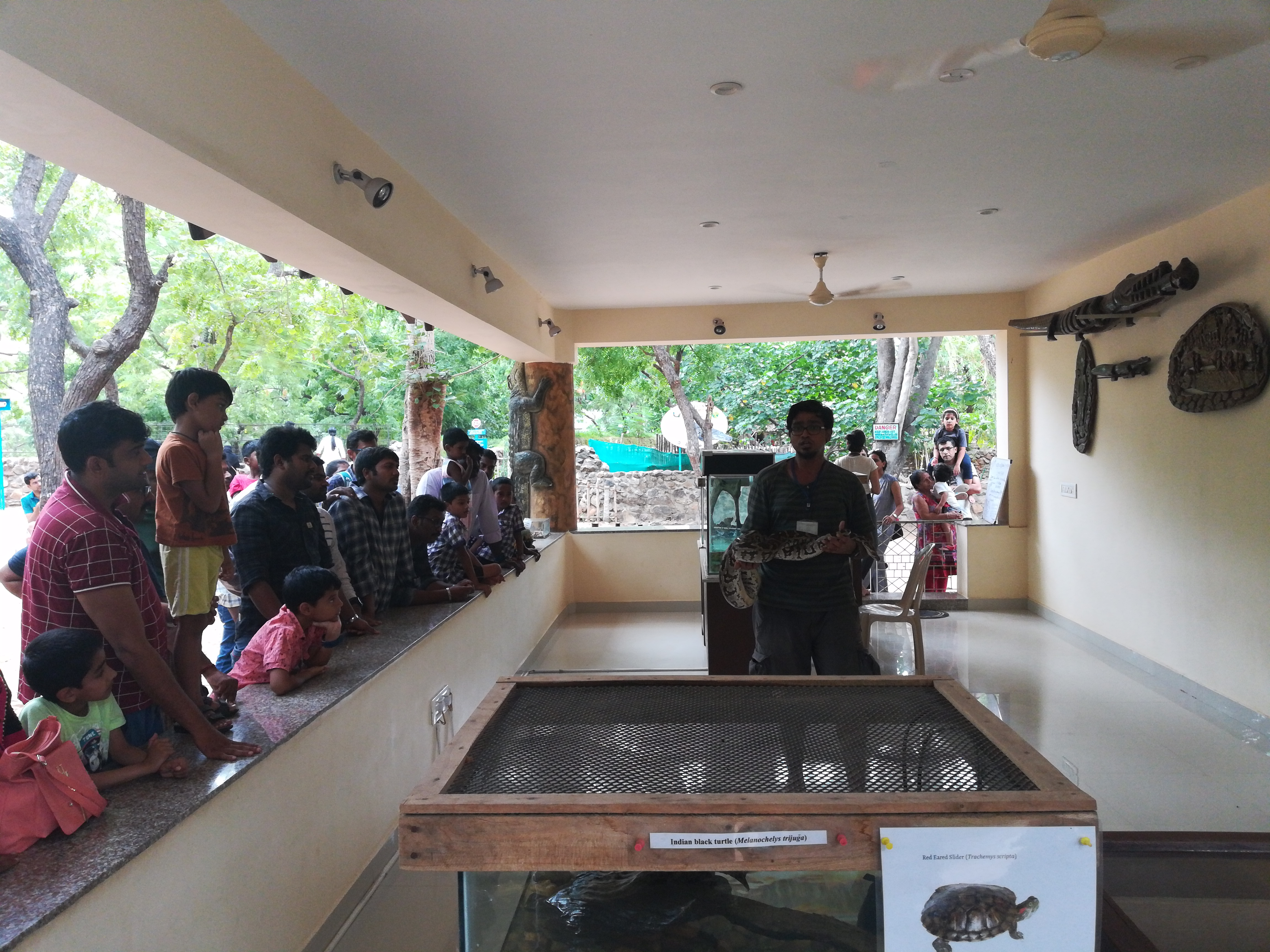 Demonstration to the public at CrocBank, Chennai, on 21 July 2018